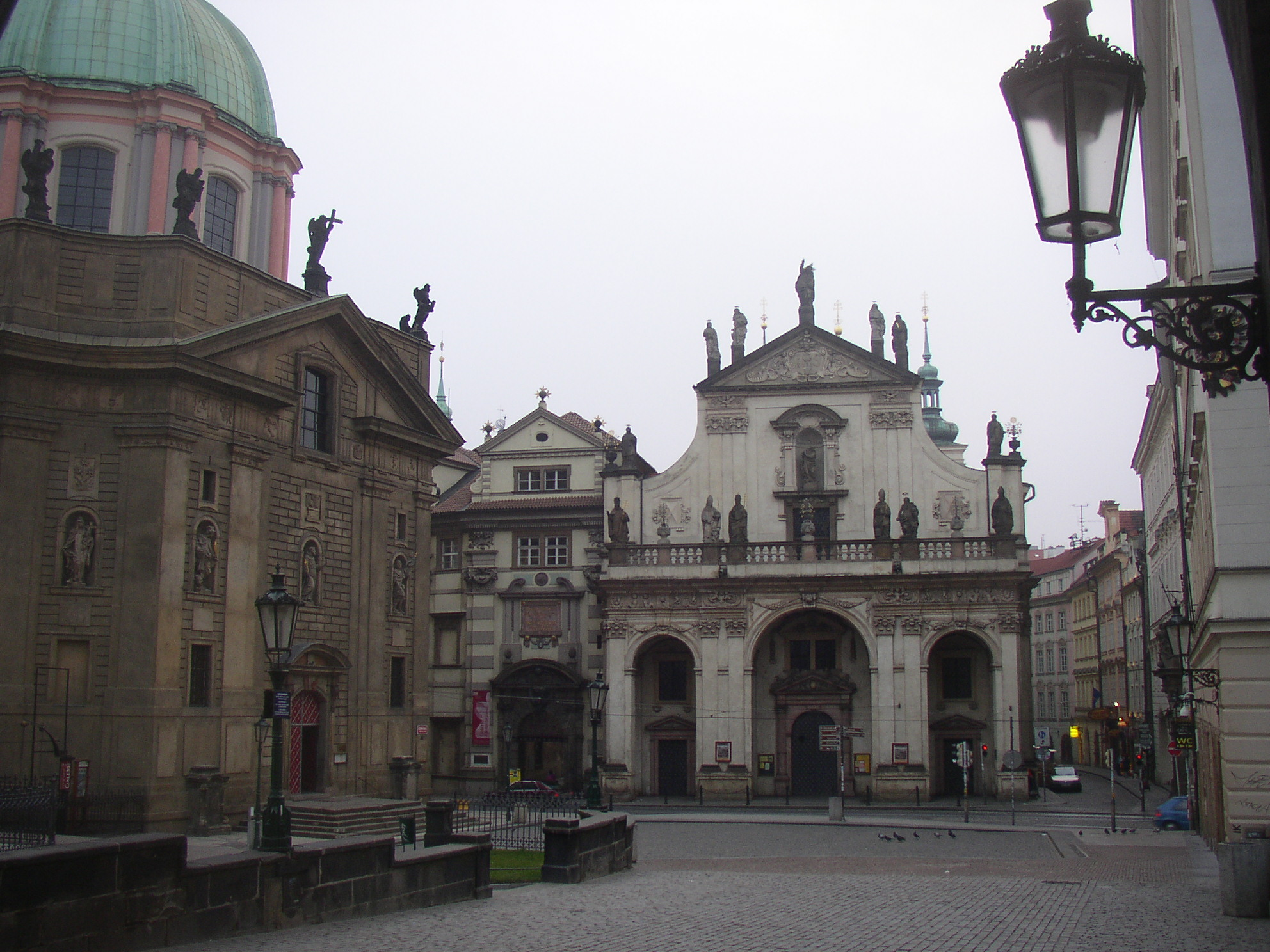 Knights of the Cross Square (Křižovnické náměstí) in Old Town of Prague, next to eastern end of Charles Bridge. An early morning view from gate of Old Town Brige Tower towards east, the place gets congested with thousands of passing tourists within several hours.